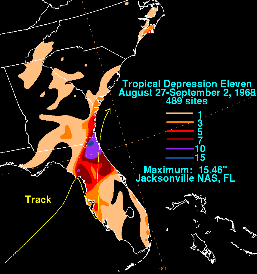 Storm total rainfall map of Tropical Depression Eleven during August and September 1968.